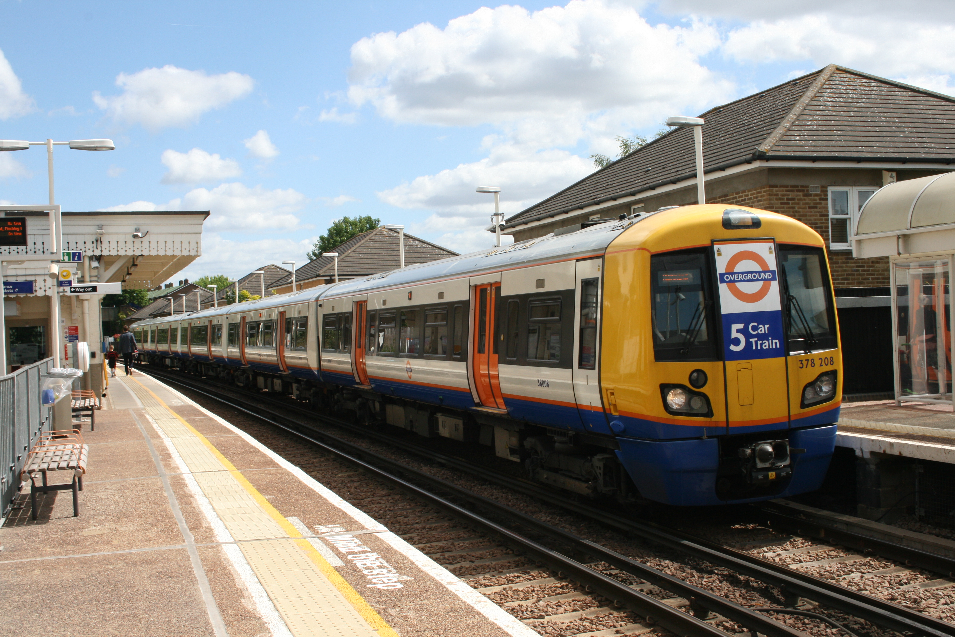 London Overground 378208, South Acton